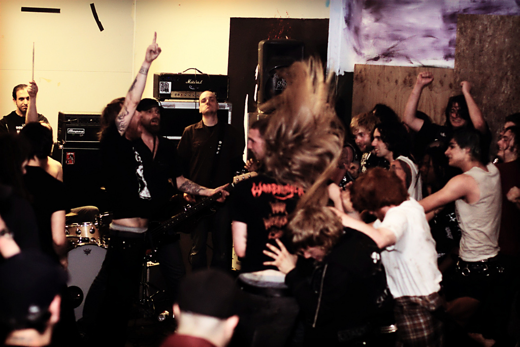 Disfear at Wheelchair in Worcester, 4/27/08